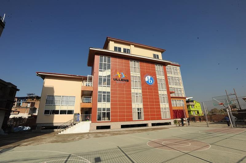 The Suresh Raj Building houses the IB Diploma branch of the school.